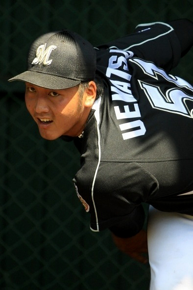 Japanese Pro baseball player Masatomo Uematsu, Chiba Lotte Marines